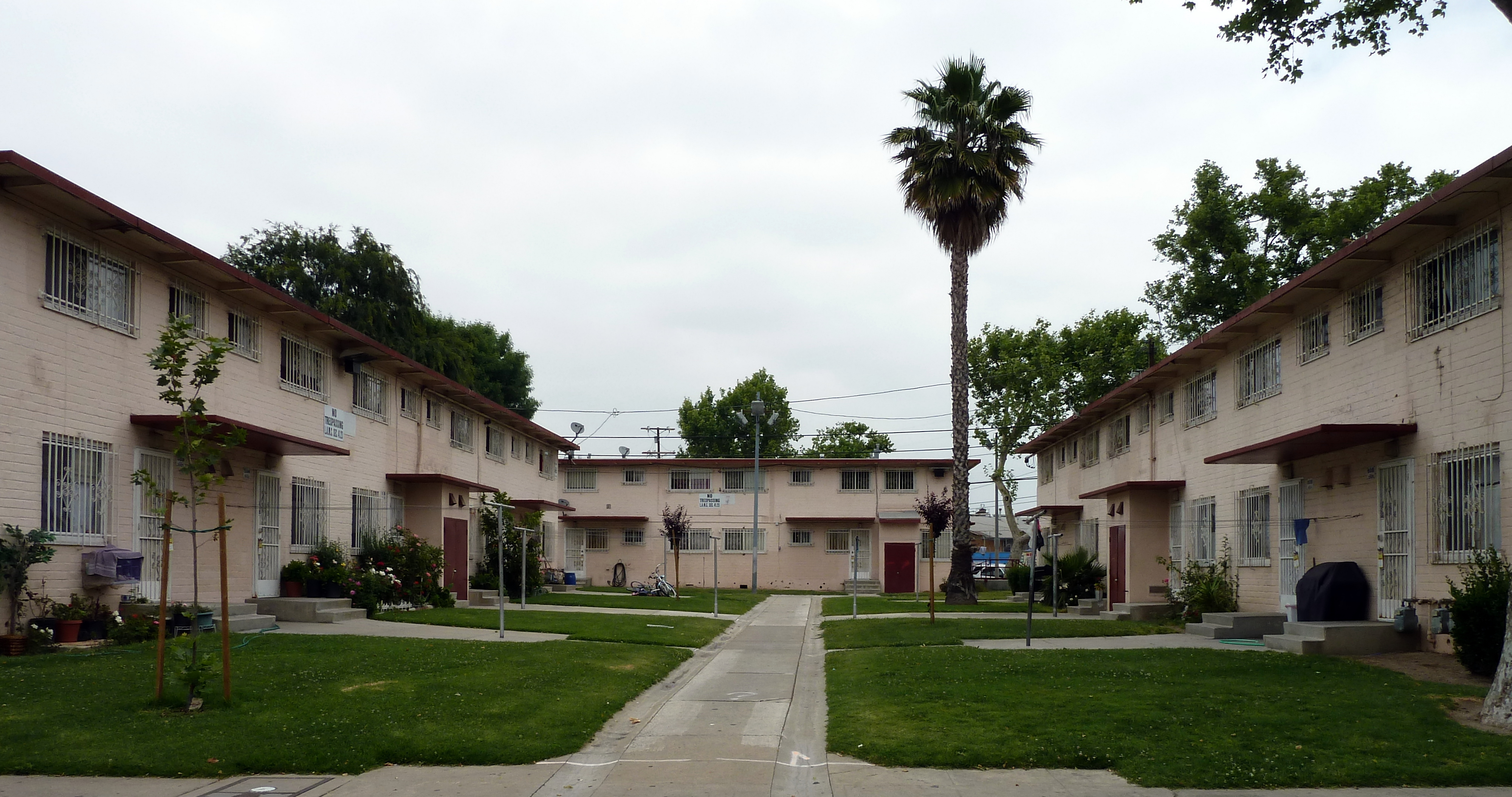 Buildings at Ramona Gardens in Boyle Heights, Los Angeles, California.